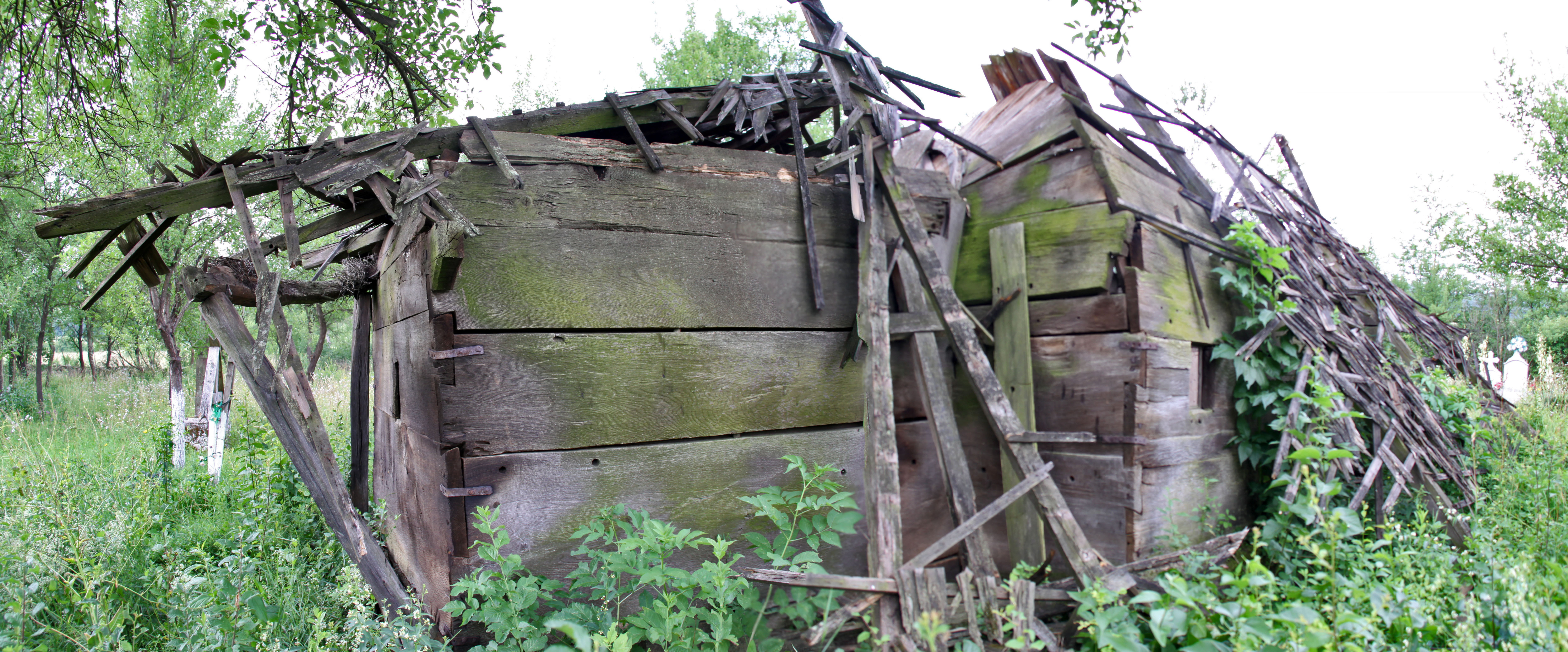 Almaşu Mic, Hunedoara county, Romania: wooden church, exterior in ruins, North-East.